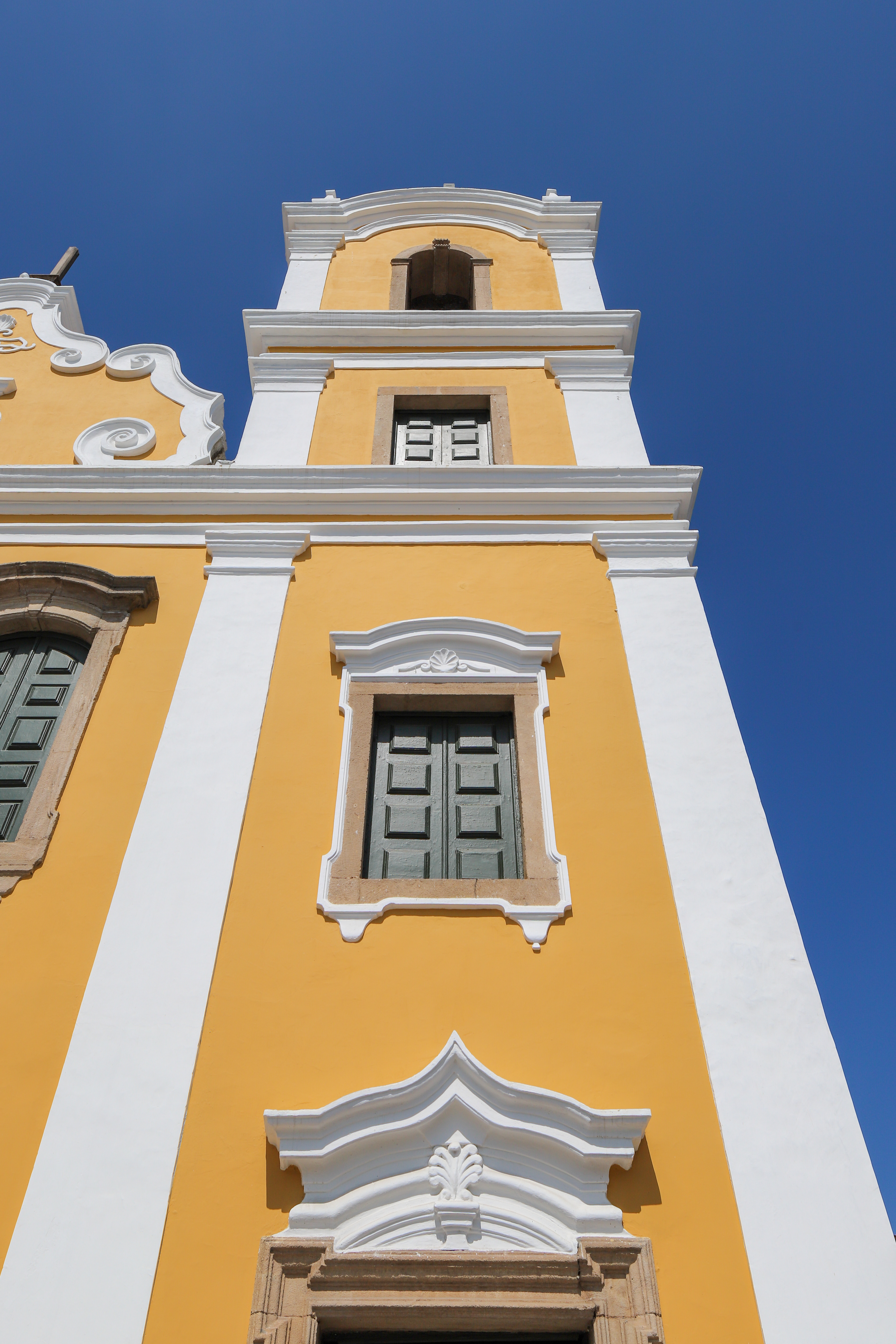 Igreja de Nossa Senhora da Saúde e Glória (Church of Our Lady of Health and Glory), Salvador, Bahia, Brazil.